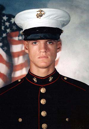 Jason Dunham, USMC; Died of wounds received in Iraq; to be posthumously awarded the Medal of Honor (announced on November 10, 2006)